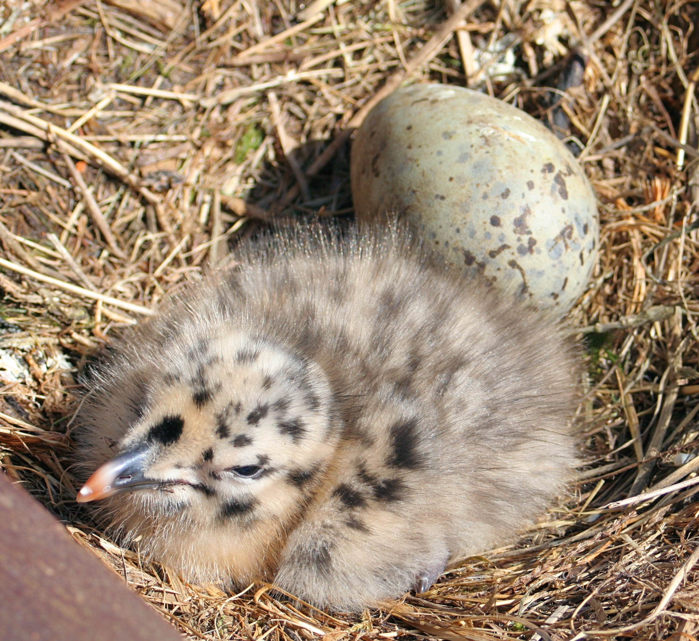 This is why the adult herring gull was so angry with me - her pride and joy, a three day old herring gull chick. I was less than a metre from the nest and had to take my eyes off mother while I took this shot - real adrenalin rush photography!